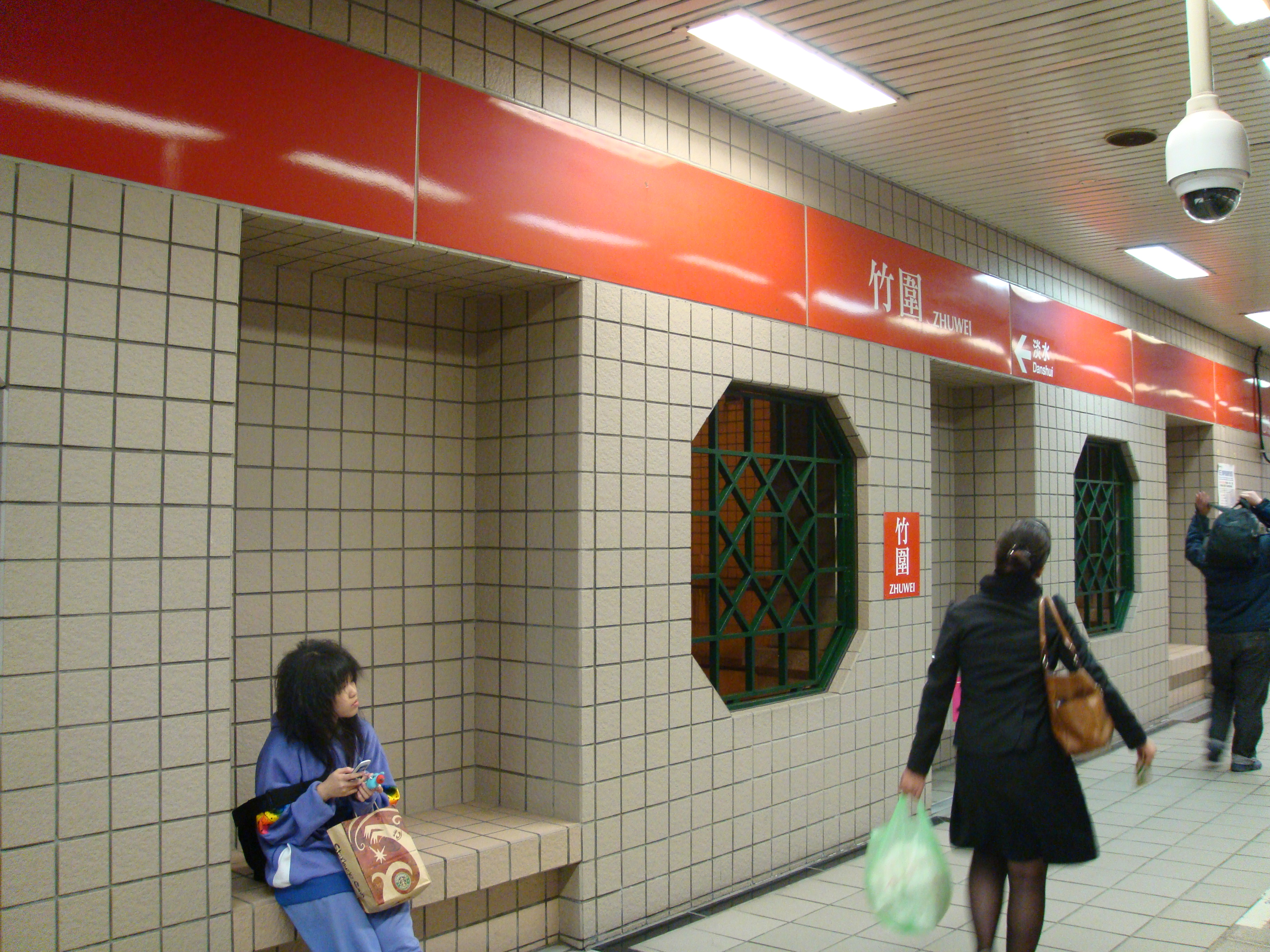 Platform 1, Zhuwei Station, Danshui Line, Taipei Metro.